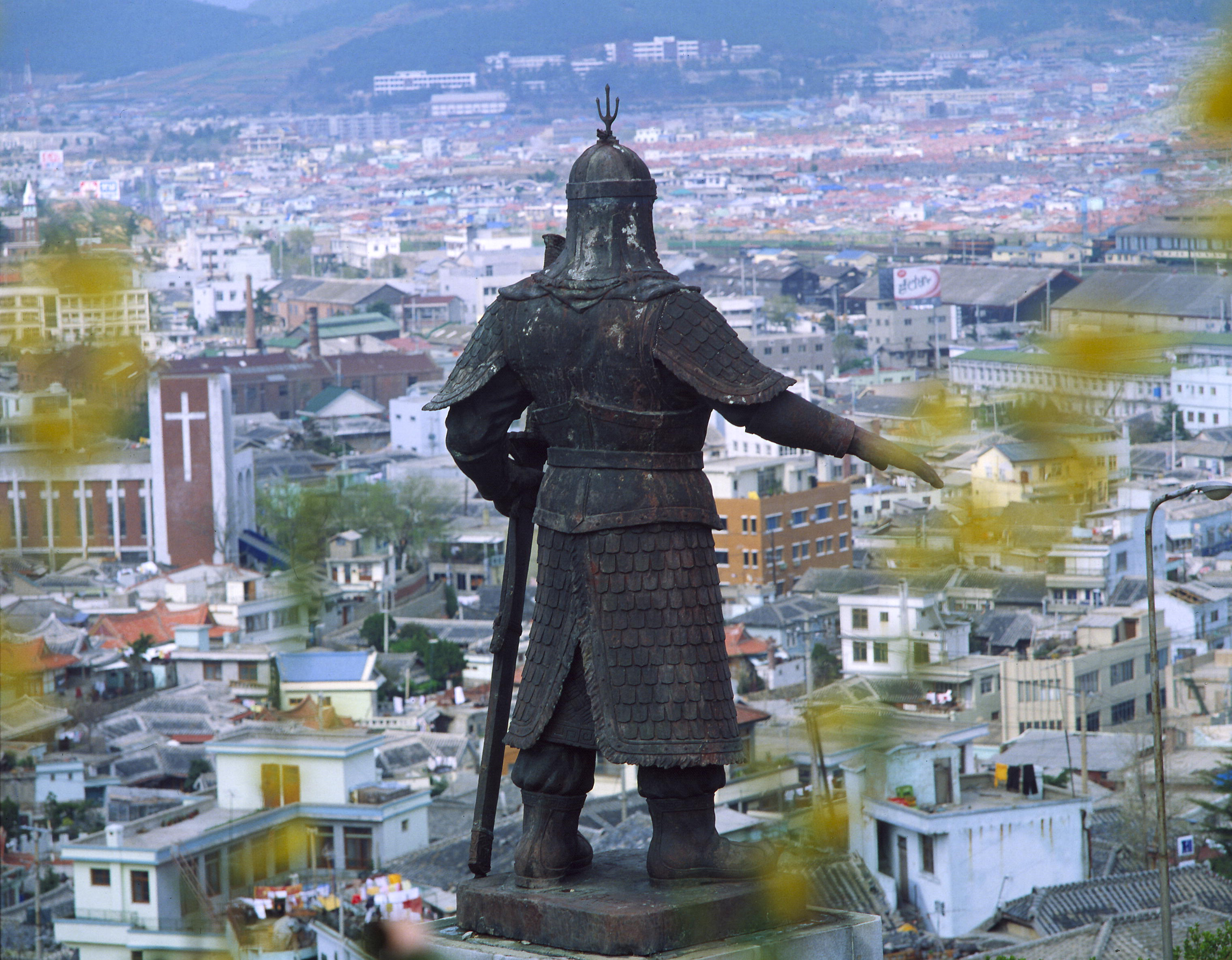 A statue of Admiral Yi Sun-sin looks out over the city of Mokpo, South Korea.